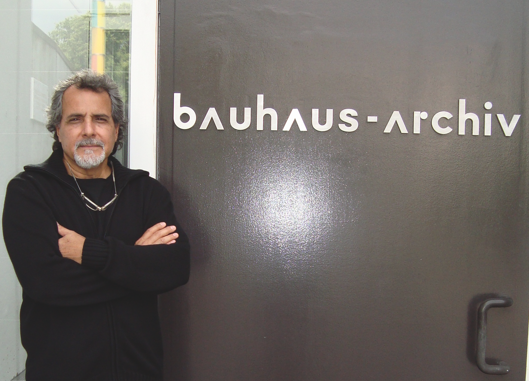 Carlos Medina at Bahaus Archives in Germany.